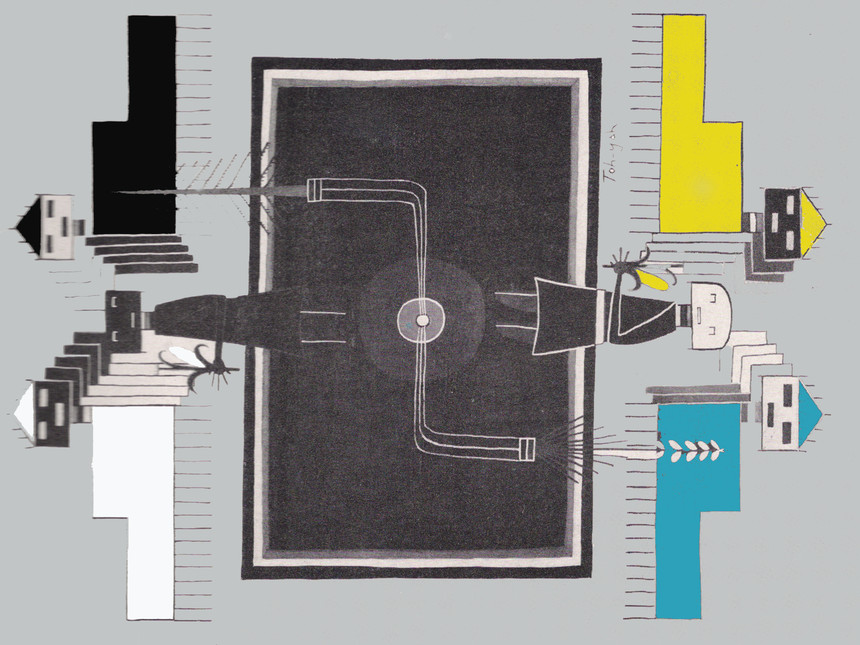 Painting of sandpainting of First Man and First Woman